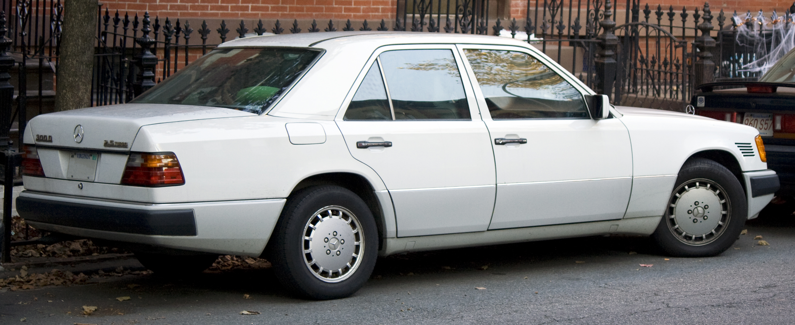 1991 Mercedes-Benz 300D 2.5 Turbo - until they were sold as the "E-class", W124s mostly carried the "300" moniker in the US, regardless of engine size. The vents used by turbocharged diesels on the right-hand fender are clearly visible.